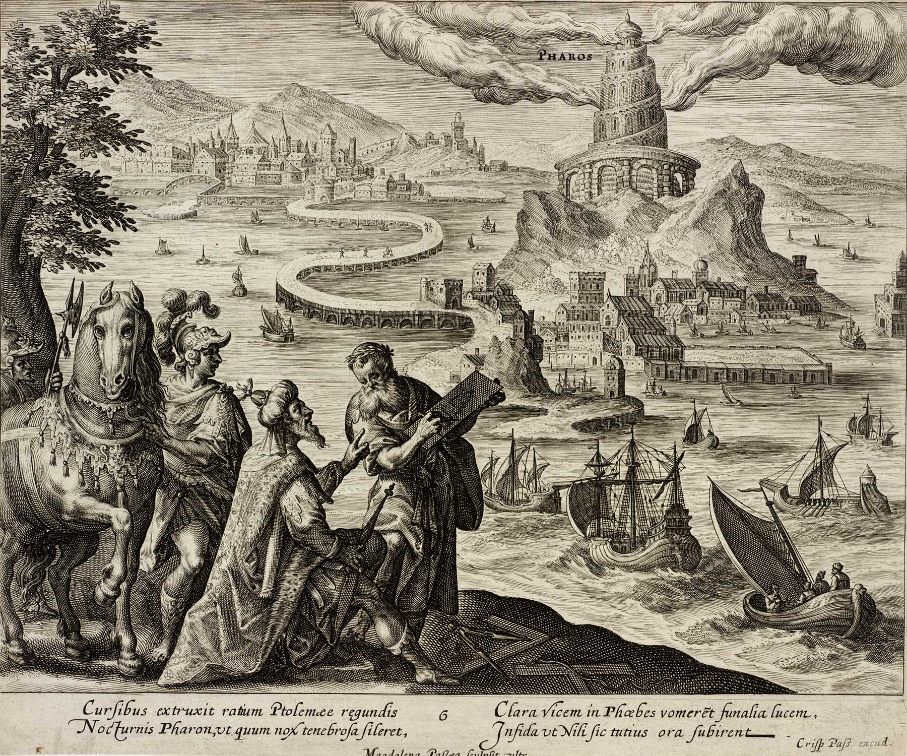 The Lighthouse of Alexandria by Magdalena van de Pasee